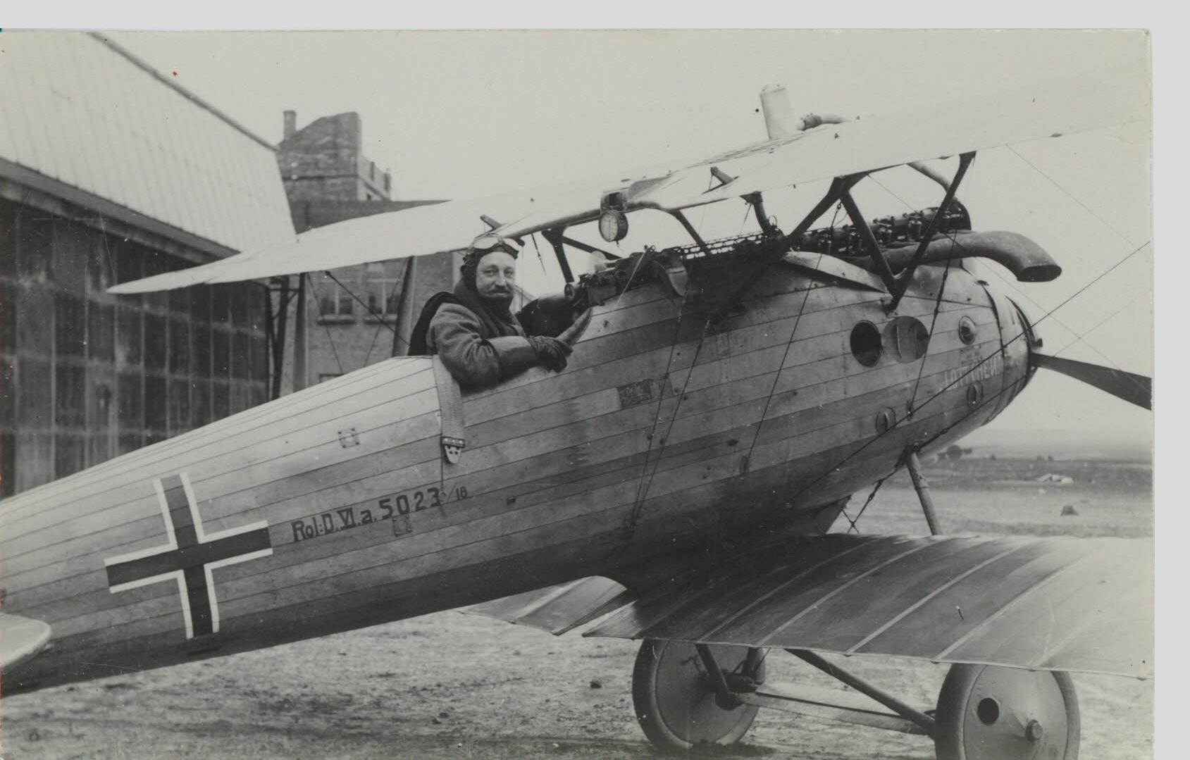 Wilhelm Eickhoff, test pilot, in Roland D.VIa at Hannover Langenhagen.